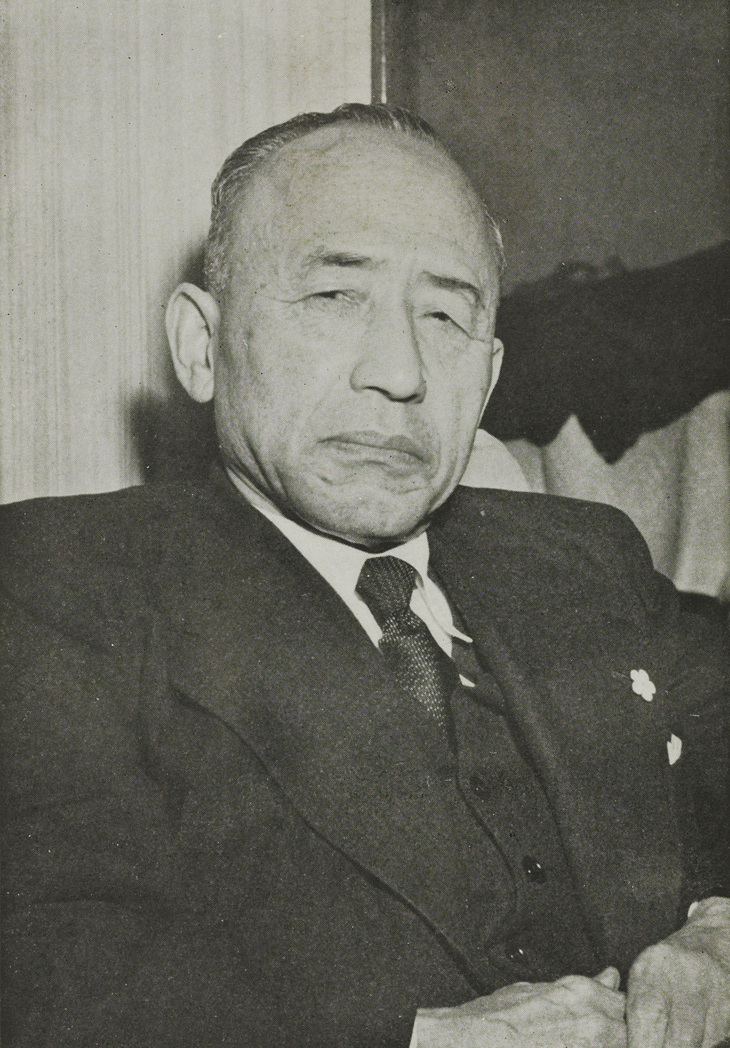 Portrait of Amano Teiyu (天野貞祐, 1884 – 1980)